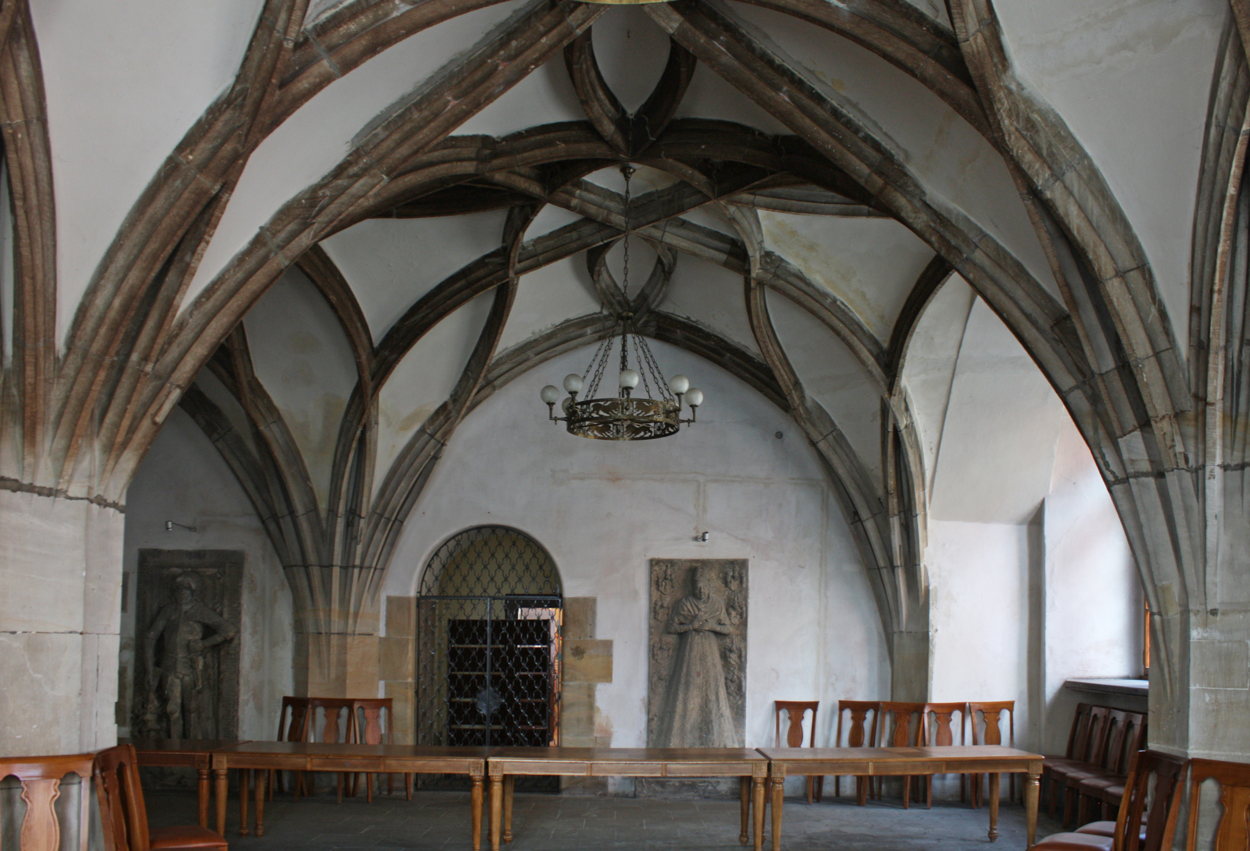 This photo of Lower Silesian Voivodeship was taken during Wikiexpedition 2013 set up by Wikimedia Polska Association.You can see all photographs in category Wikiekspedycja 2013.